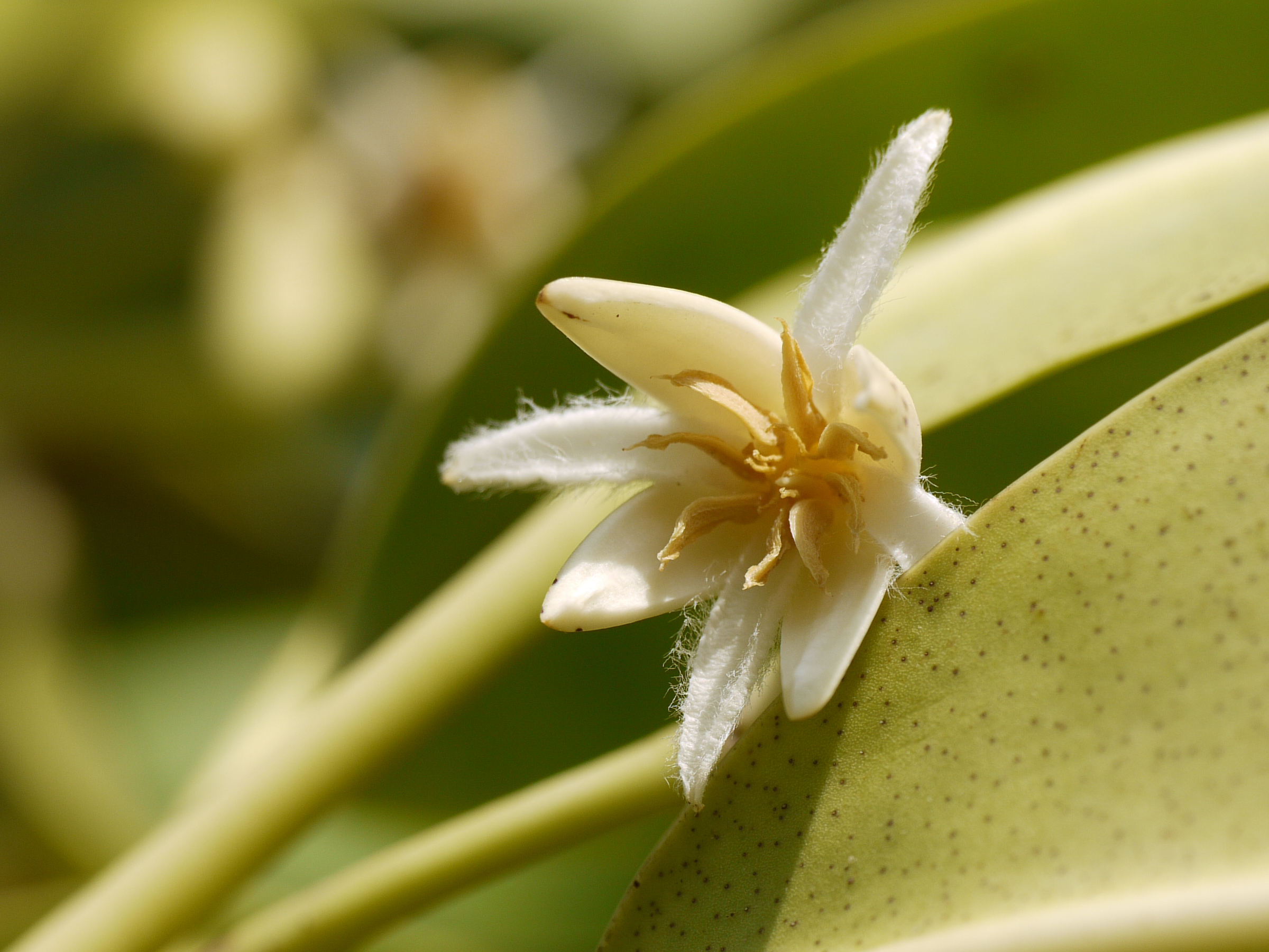 Rhizophoraceae (Burma mangrove family) » Rhizophora mucronata Lam. ree-ZOH-for-uh -- bearing roots, referring to the typical aerial roots muh-kron-AH-tuh -- with a short tip commonly known as: Asiatic mangrove, boriti poles, loop-root mangrove, red mangrove, simple cymed mangrove • Bengali: ¿ ভারা ? bhara, গর্জন garjan • Gujarati: કરોડ karod • Kannada: ¿ ಕಾಂದಳೆ ? kandale, ನಿಜ ¿ ಕಾಂದಳೆ ? nija kandale, ಒಳ್ಳೆ ¿ ಕಾಂದಳೆ ? olle kandale • Konkani: ¿ कोंदळं ? komdalam • Malayalam: പനച്ചിക്കണ്ടല്‍ panaccikkantal • Marathi: कामोडुंबी kamodumbi, कांदळ kandal • Oriya: ରାଇ ଗଛ rai gachha • Tamil: கண்டல் kantal, பேய்க்கண்டல் pey-k-kantal • Telugu: అడవి పొన్న adavi ponna, మంచి పొన్న manci ponna, ఉప్పు పొన్న uppu ponna Native to coasts of: e Africa, IND Ocean, India, Pakistan, Sri Lanka, Indo-China, n Australia, s-w Pacific References: Flowers of India • GRIN • FRLHT • DDSA • Flowers of Sahyadri by Shrikant Ingalhalikar